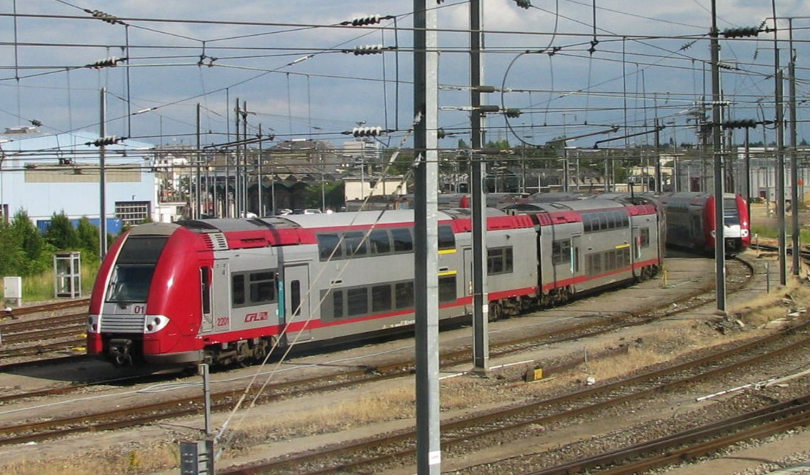 CFL Class 2200 - Double deck EMU "Coradia Duplex"